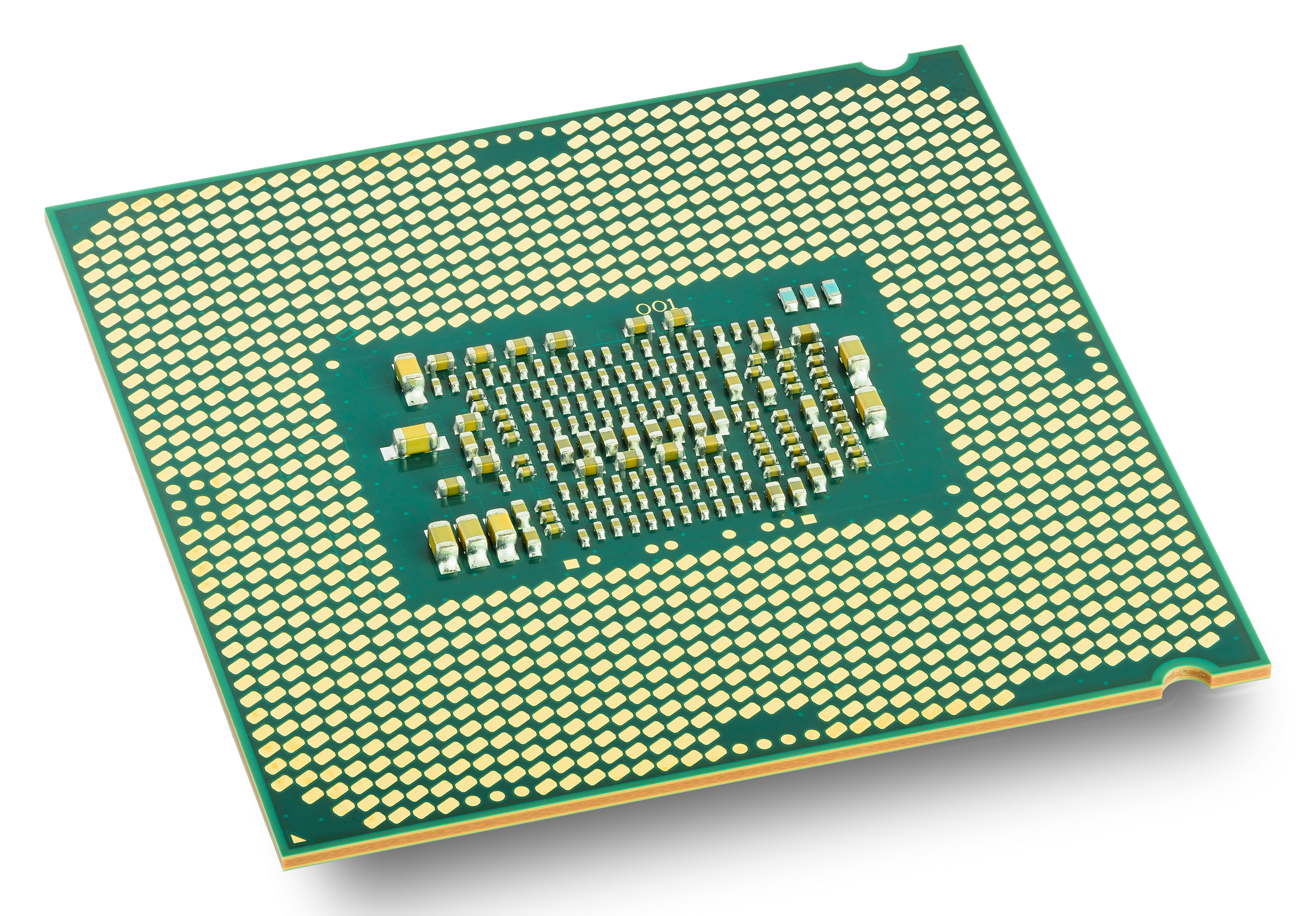 Perspective view of an Intel central processing unit Core i7 Skylake type core, model 6700K. LGA 1151 socket, 14 nm process, core frequency 4.00 GHz. Manufactured in Vietnam.